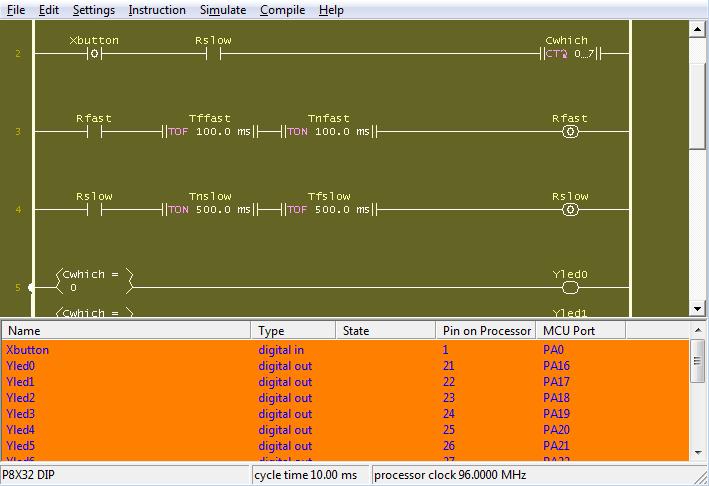 PICoPLC v3.0 ladder editor screenshot